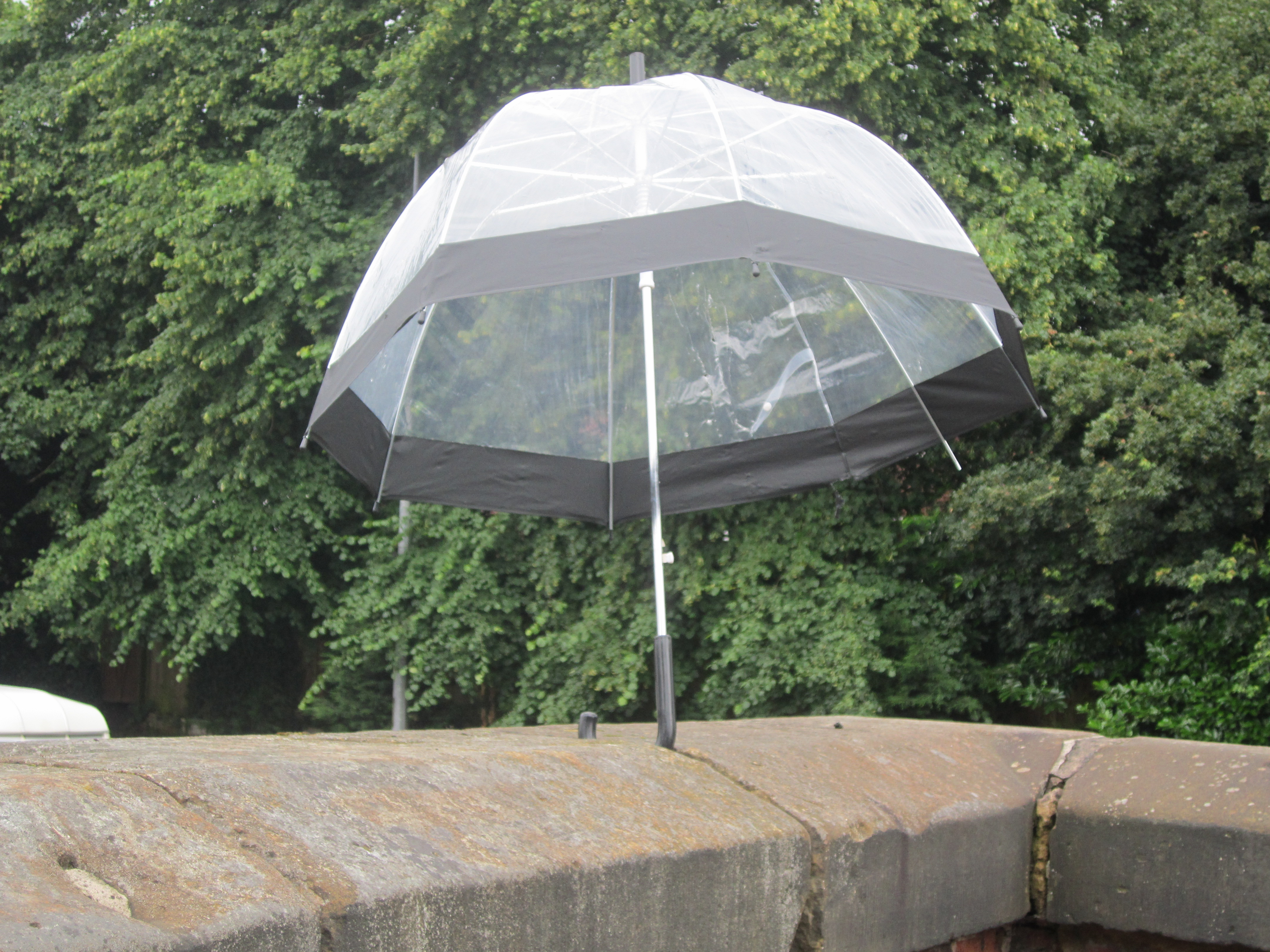 Photo taken at Knutsford, Cheshire, England.